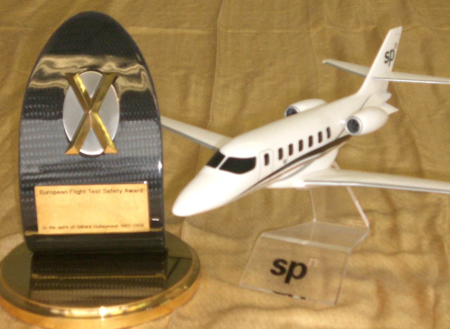 European Flight Test Safety Award - presented to an individual, usually a test pilot or flight test engineer, who made significant contributions to the safety of flight test. The recipient is nominated by a jury. The award is presented at the end of the European Flight Test Safety Workshop